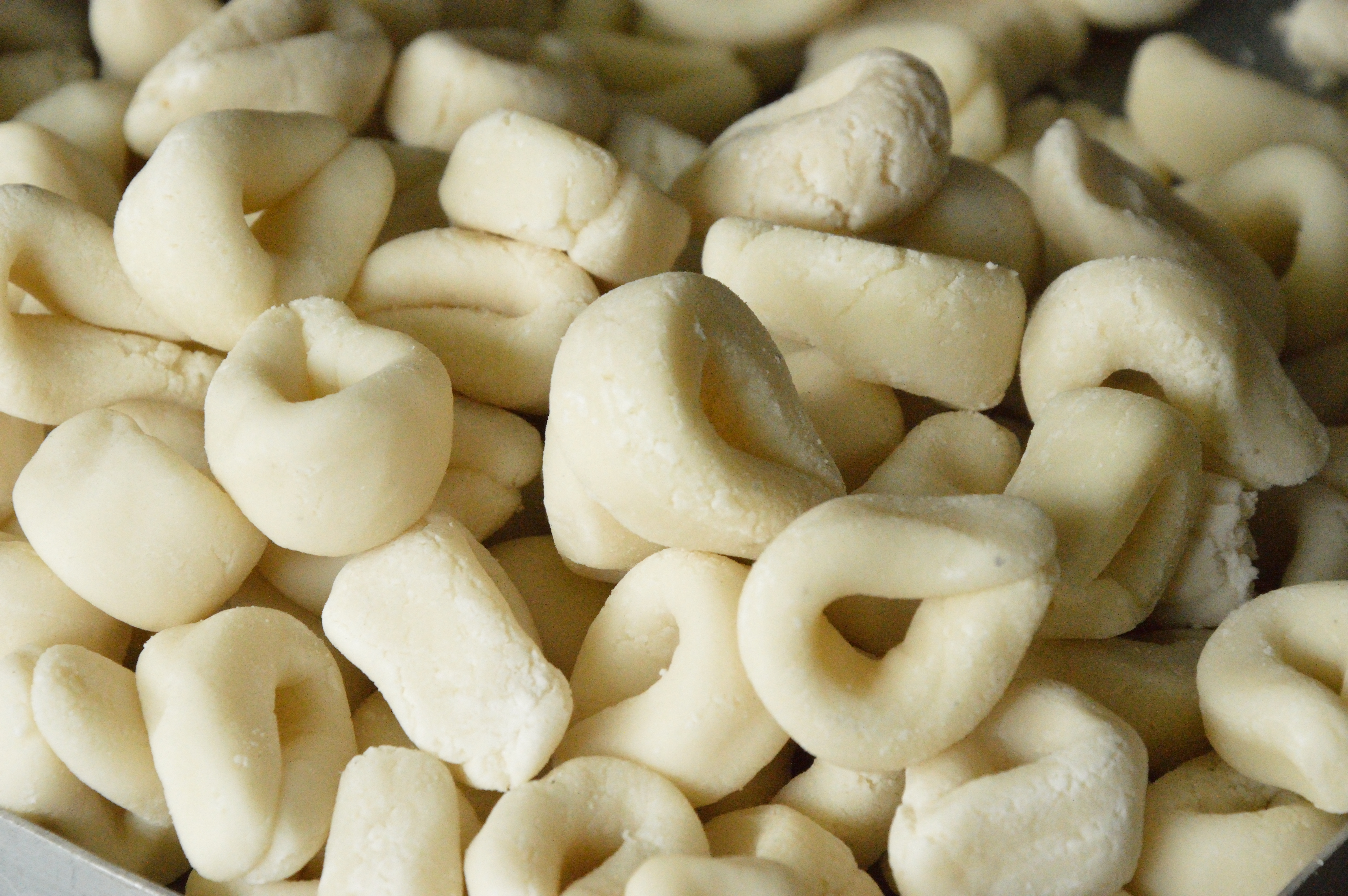 Food from West Bengal.